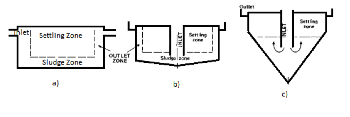 Different types of Settling Basin Design